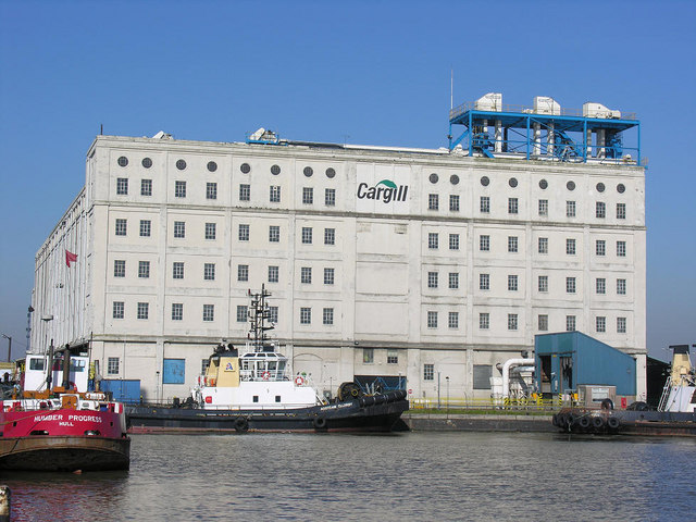 Grain Silo, King George Dock The grain silo dates from the completion of the dock in 1914 but has been extended over the years. Built as an import silo mainly for wheat, barley and maize, but in the 1980's 'turned round' to act as an export silo for surplus home-produced grains. Capacity is around 60,000 tonnes.